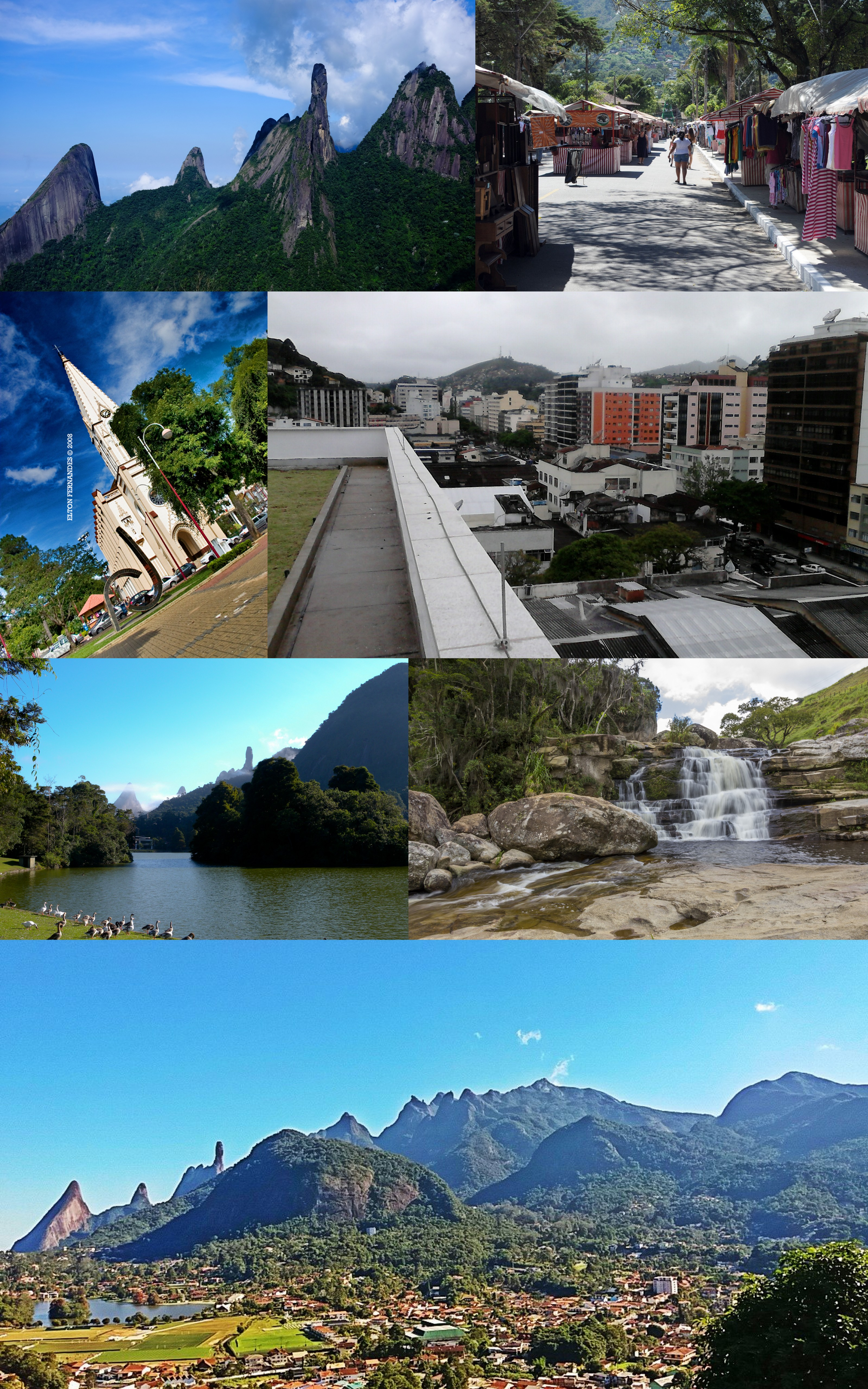 Montage of Teresópolis.